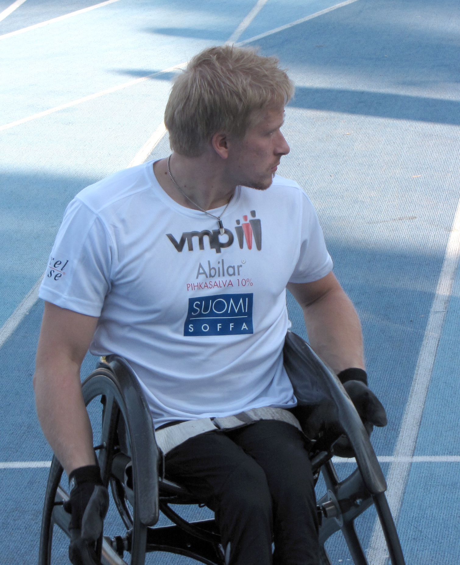 Leo-Pekka Tähti at Lappeenranta Games 2010.